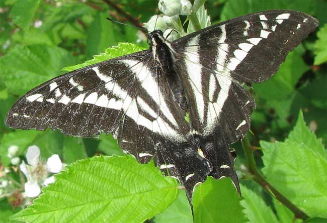 A Pale Tiger Swallowtail in Oregon - one of the more commonly found species of butterfly.